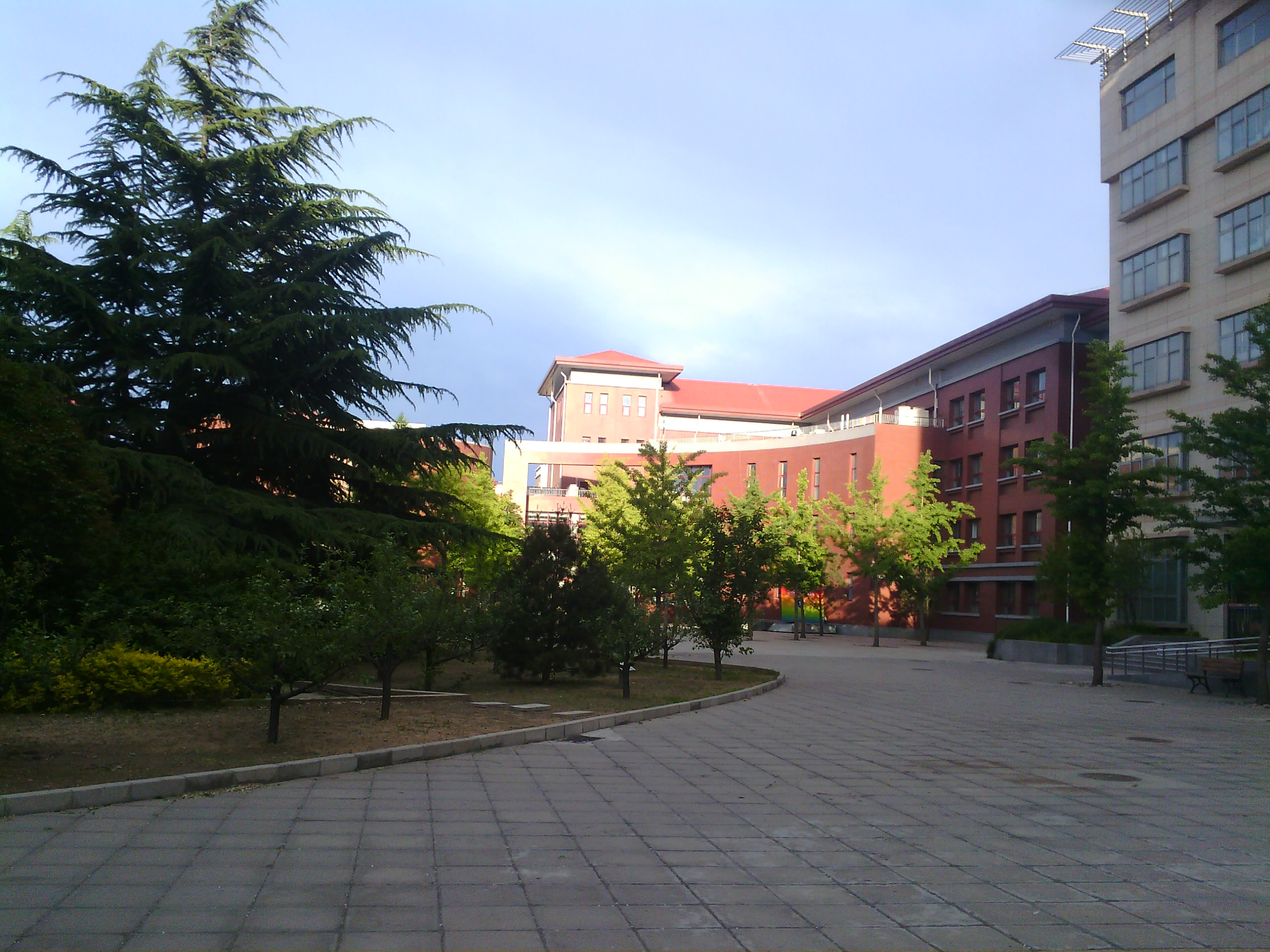 This is a photo of Lin Yueqin Library in Beijing National Day School.